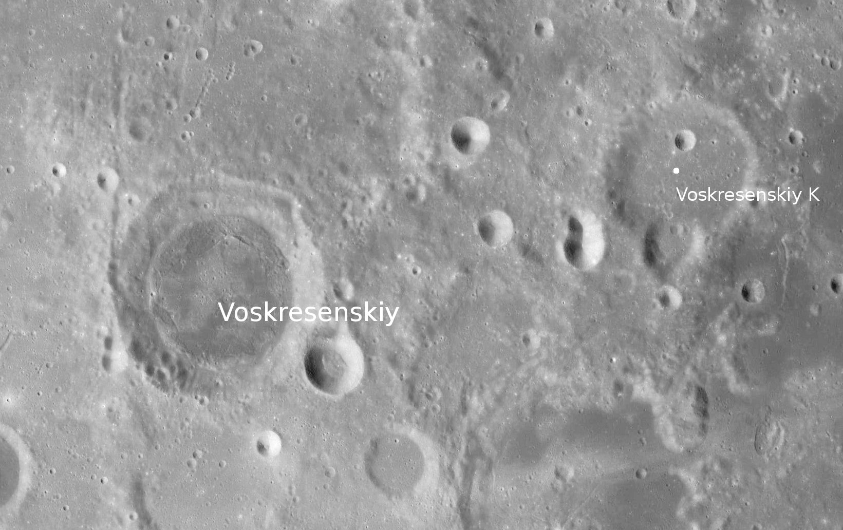 Crater Voskresenskiy (detail of LRO - WAC global moon mosaic; Mercator projection)